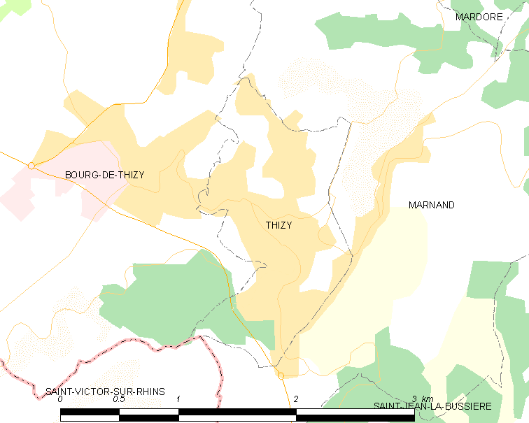 Map of French municipality